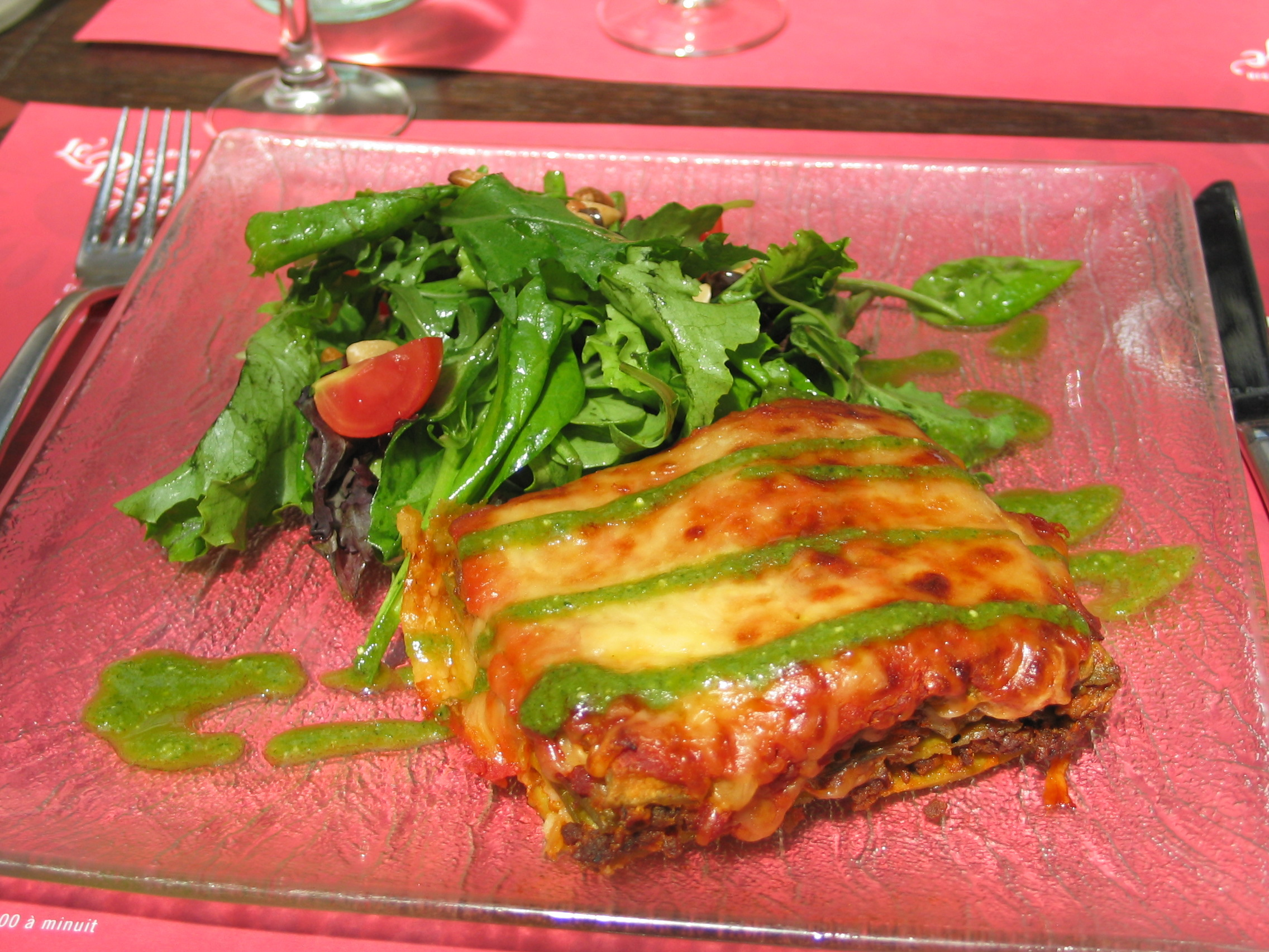 Lasagna